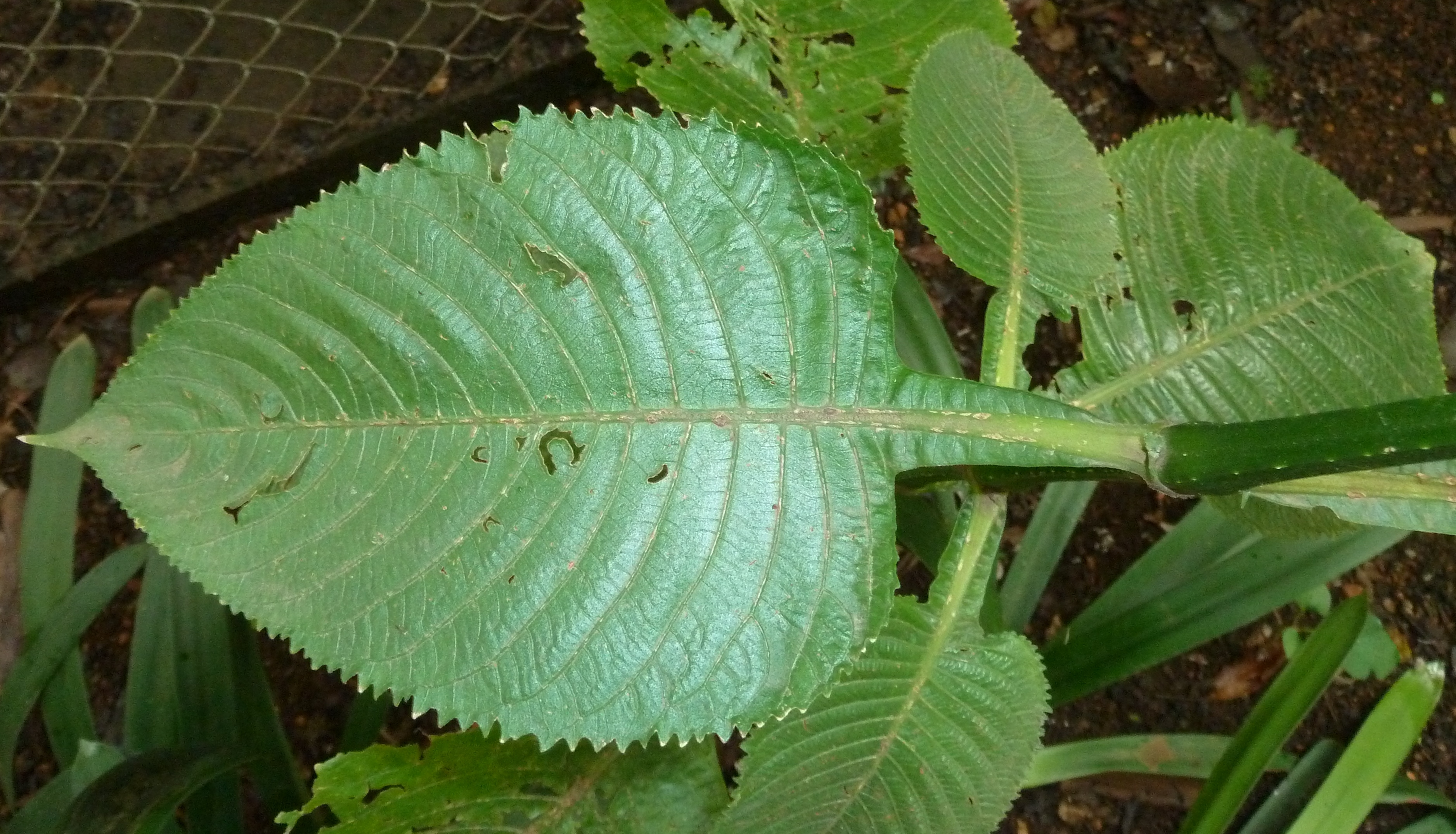 Foliage of a Giant salvia in the Manie van der Schijff Botanical Garden, Pretoria